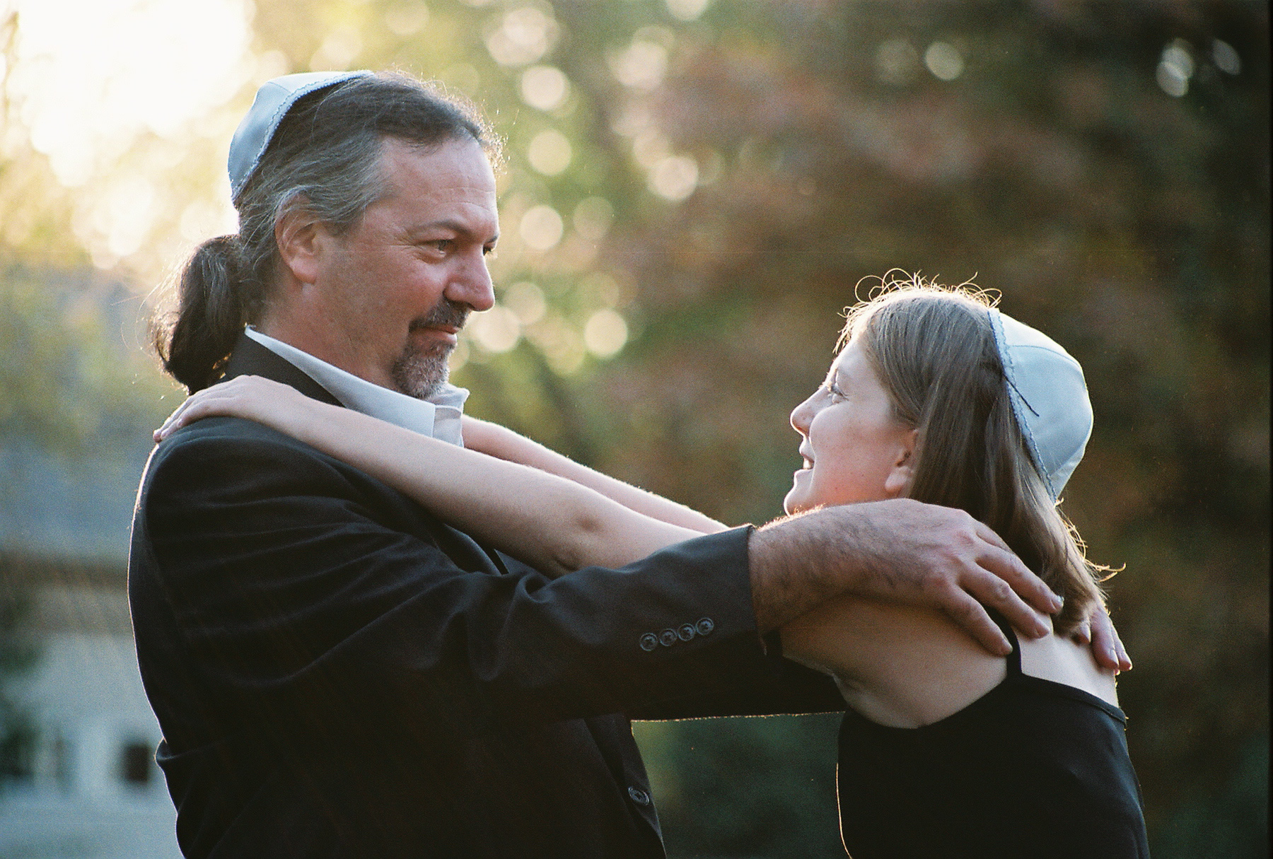 Bat mitzvah in the United States.